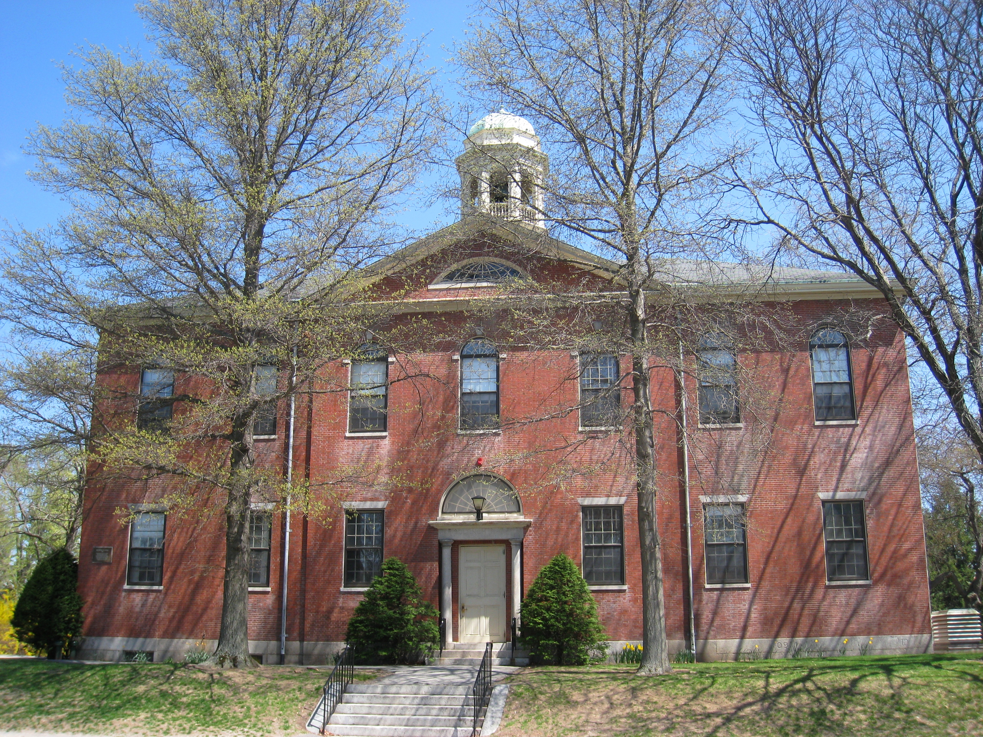 Phillips Academy, Andover, Massachusetts, USA - Bulfinch Hall, front facade.